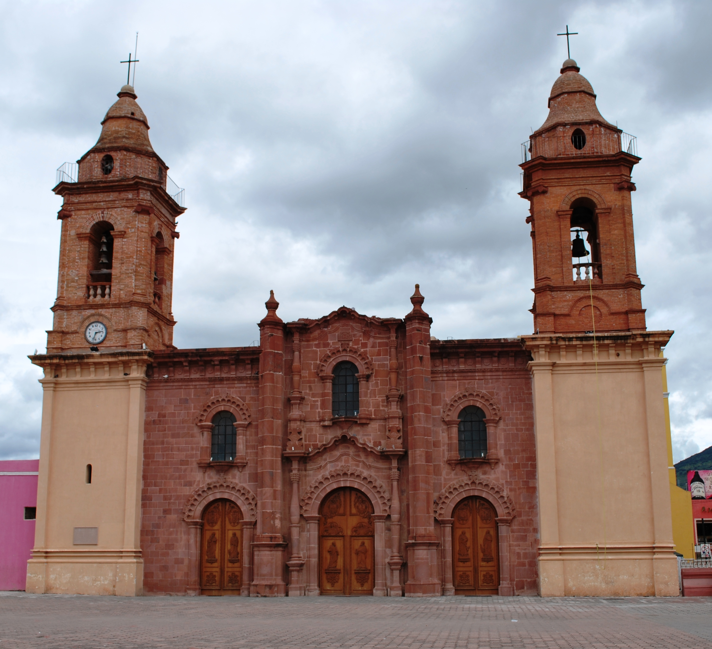 Facade of the Cathedral of Huajuapan in Huajuapan de León, Oaxaca